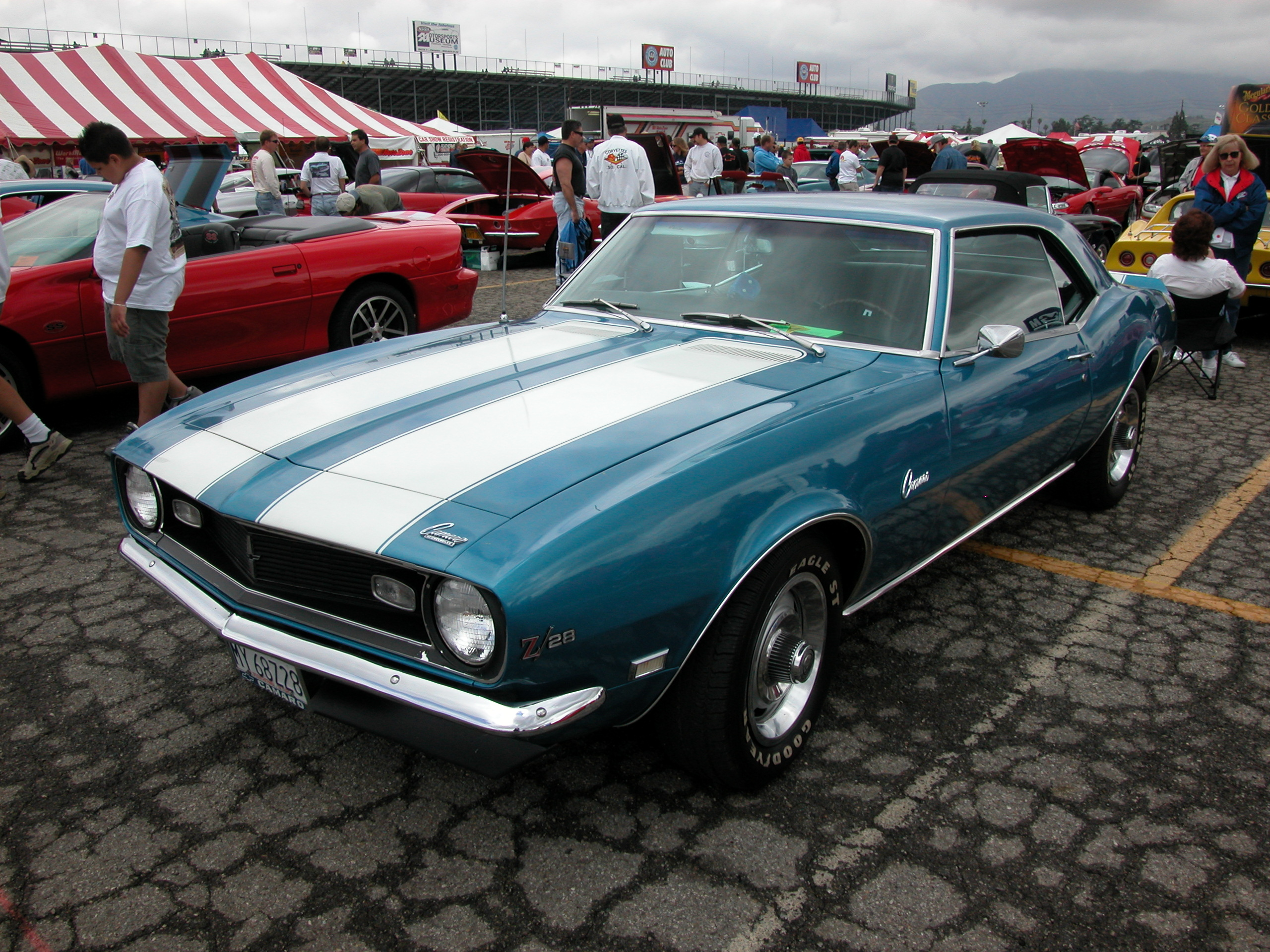 1968 Chevrolet Camaro Z28 at the 2003 Super Chevy Show in Pomona, CA. Camera used is a Nikon Coolpix 5000.